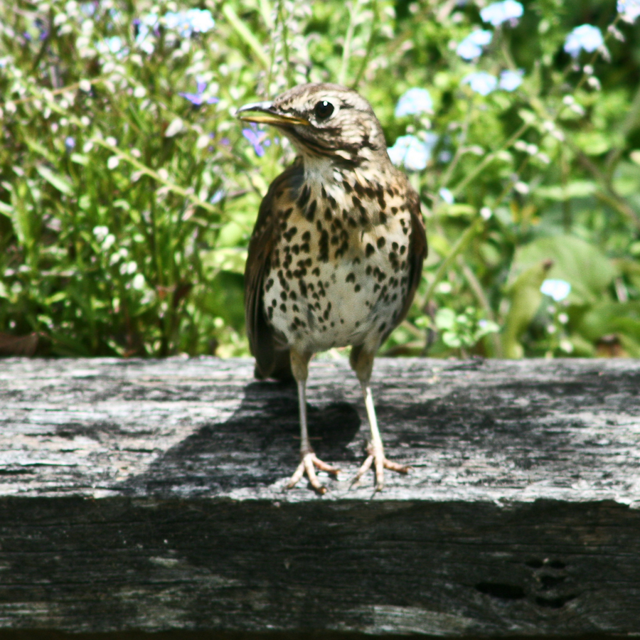 A Song Thrush (Turdus philomelos), in a Tauranga Backyard